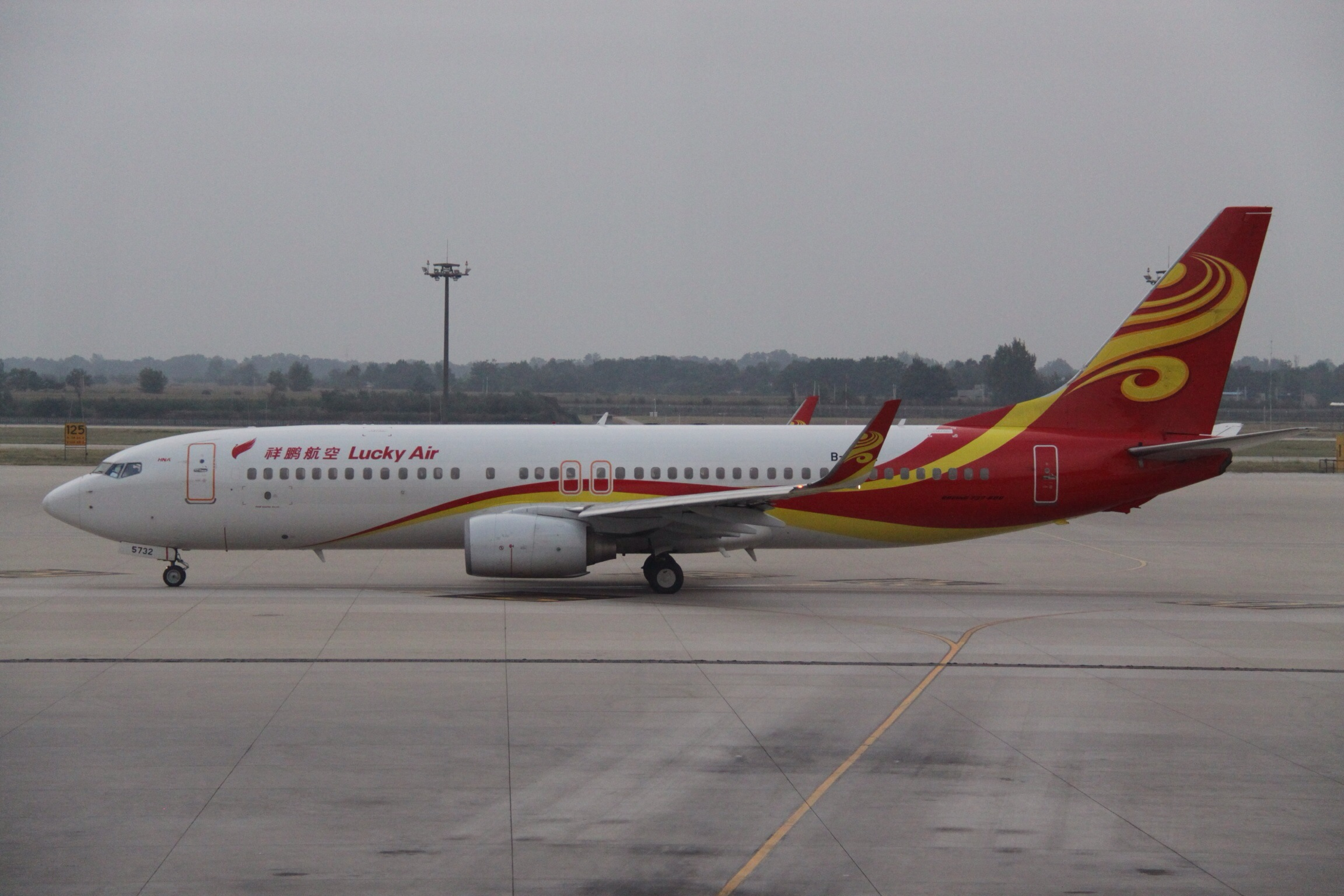 At Xi'an Xianyang International Airport